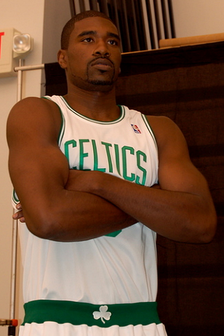 Display of Leon Powe of the Boston Celtics at NBA Media Day on September 28, 2007.